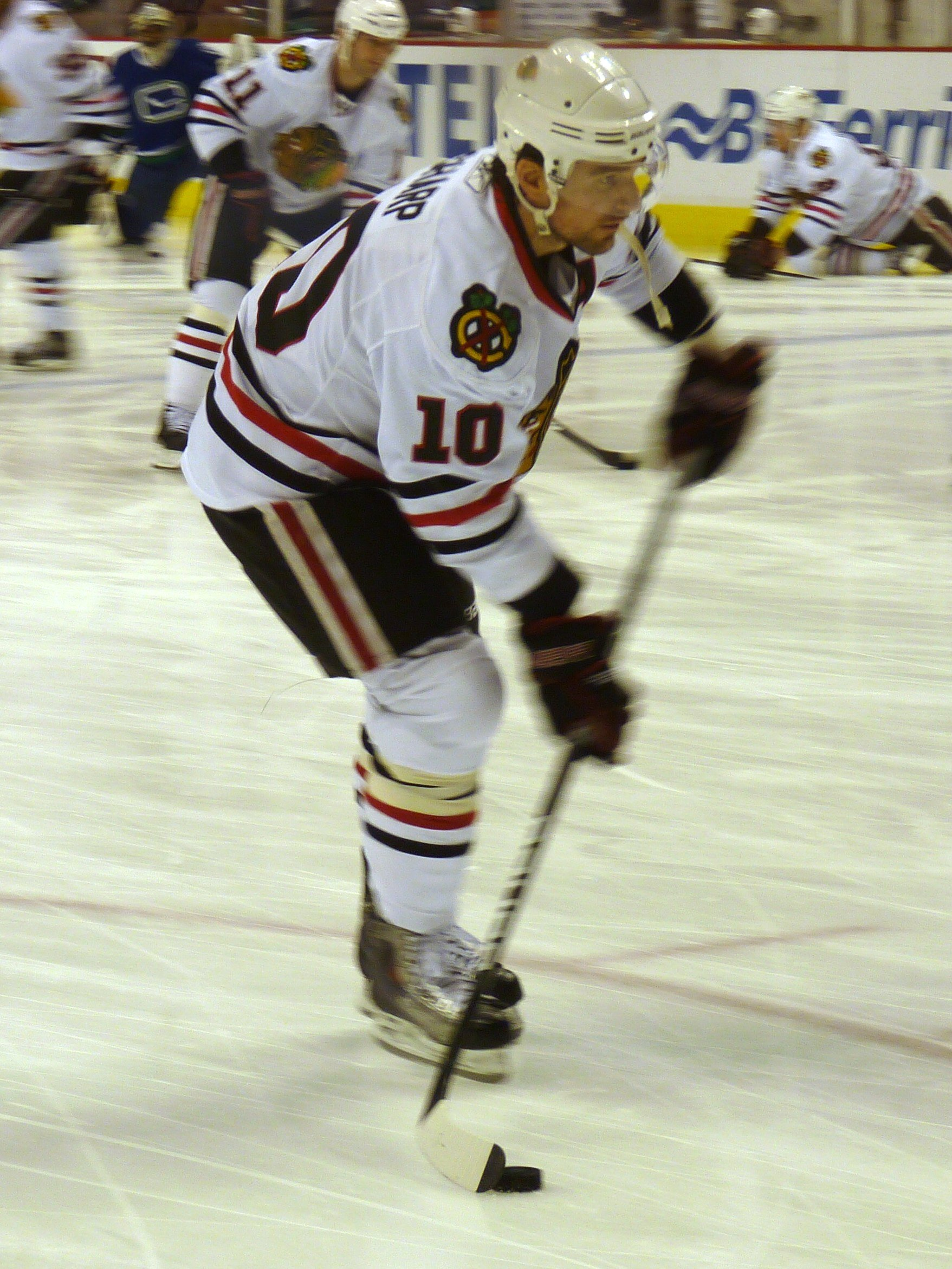 Patrick Sharp of the Chicago Blackhawks takes practice shots before a game against the Vancouver Canucks.